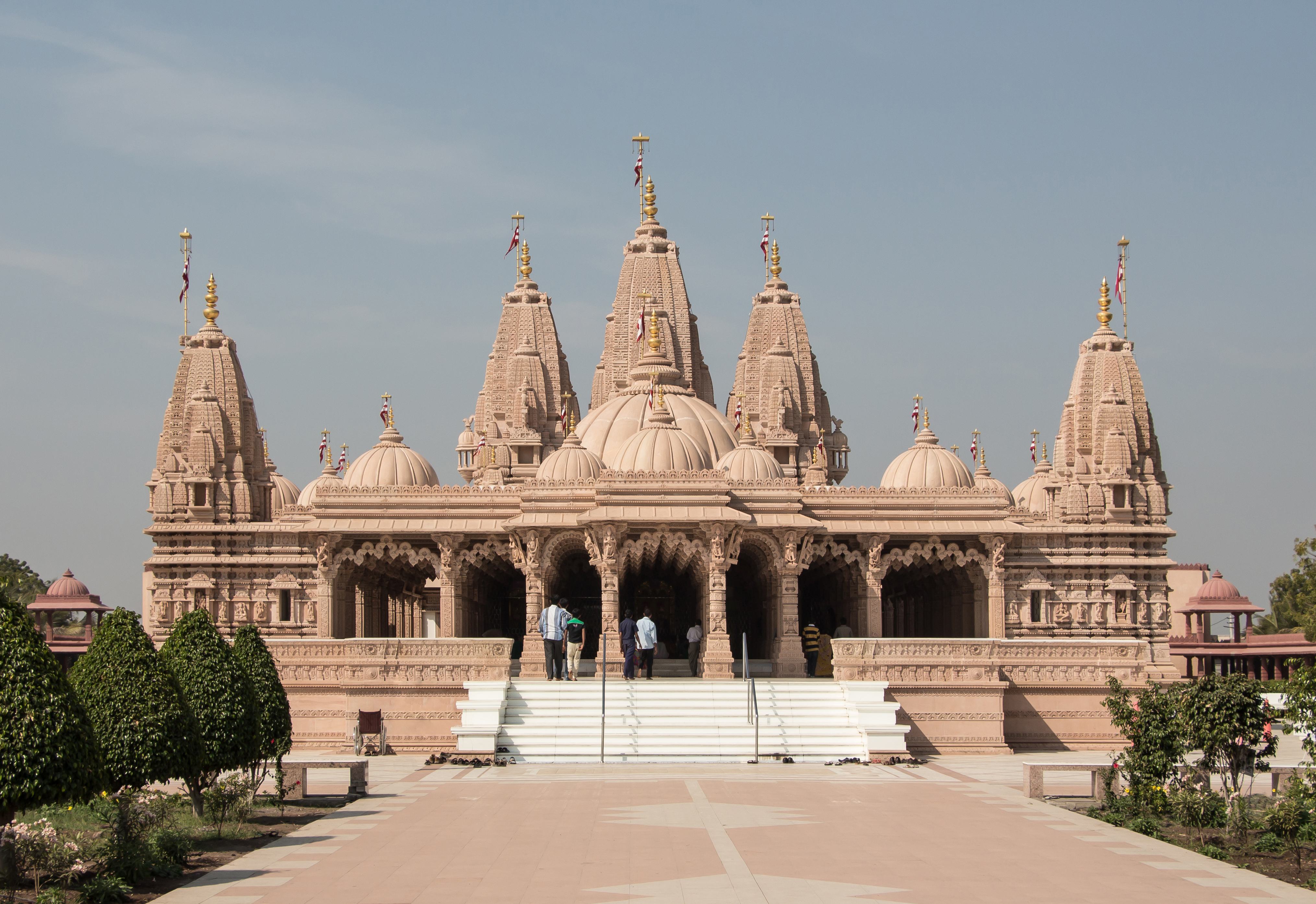 Shri Swaminarayan Mandir, Bhavnagar, India